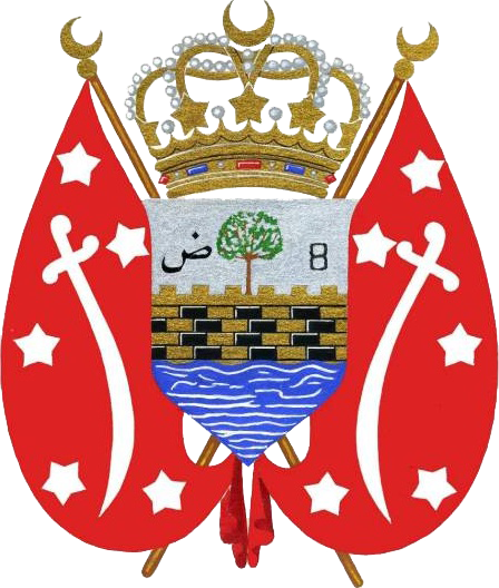 Coat of arms of Yemen, used until 1962.